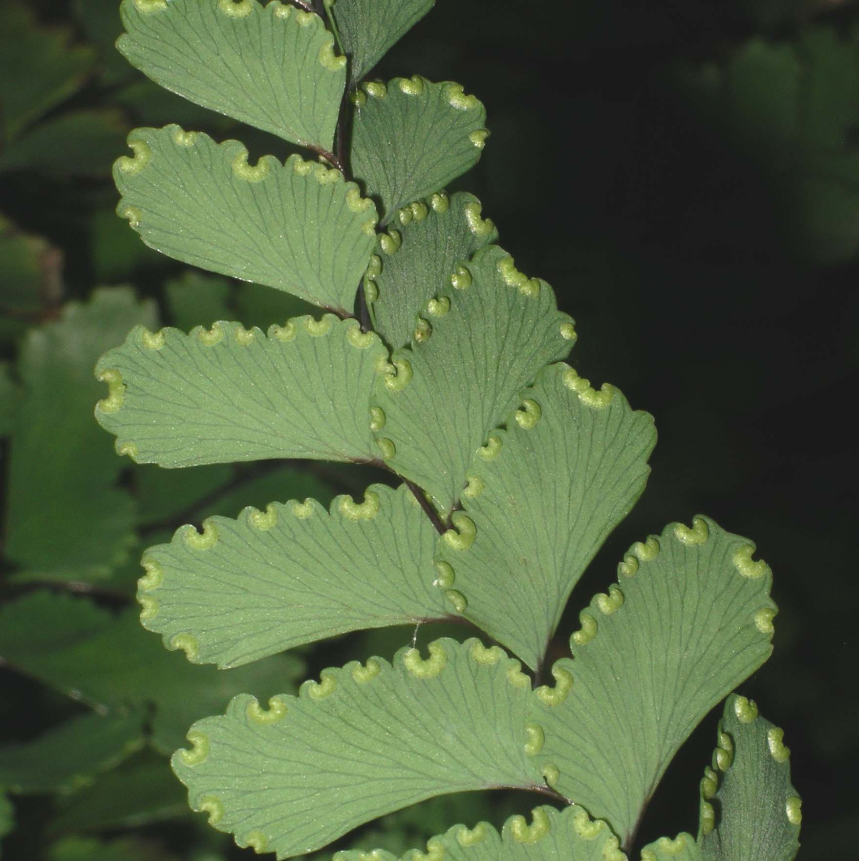 Adiantum cunninghamii - underside of leave showing reflexed marginal lobes containing sori